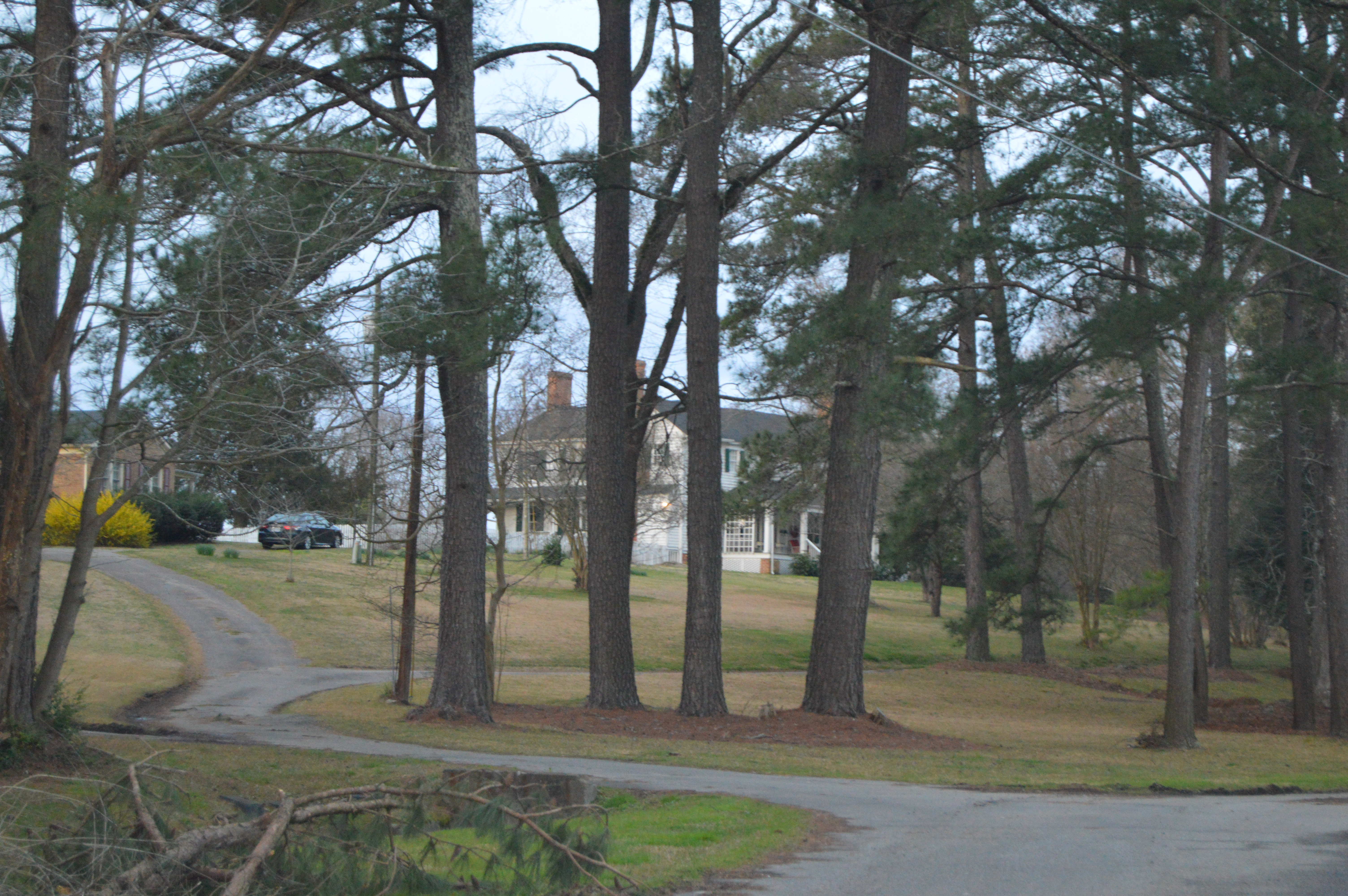 Entrance to the Rosefield property, located at 212 W. Gray Street in Windsor, North Carolina, United States. Built in 1791, it is listed on the National Register of Historic Places.